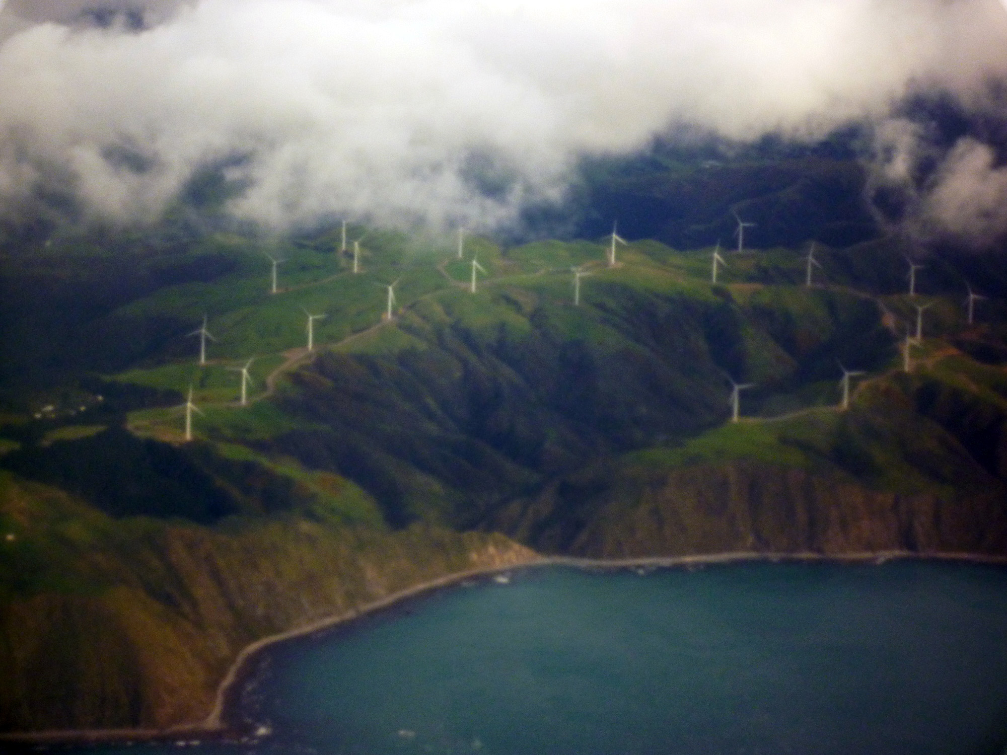 An aerial view of the Meridian Energy Project West Wind wind farm at Makara, near Wellington, New Zealand. Also known as Makara Wind Farm.